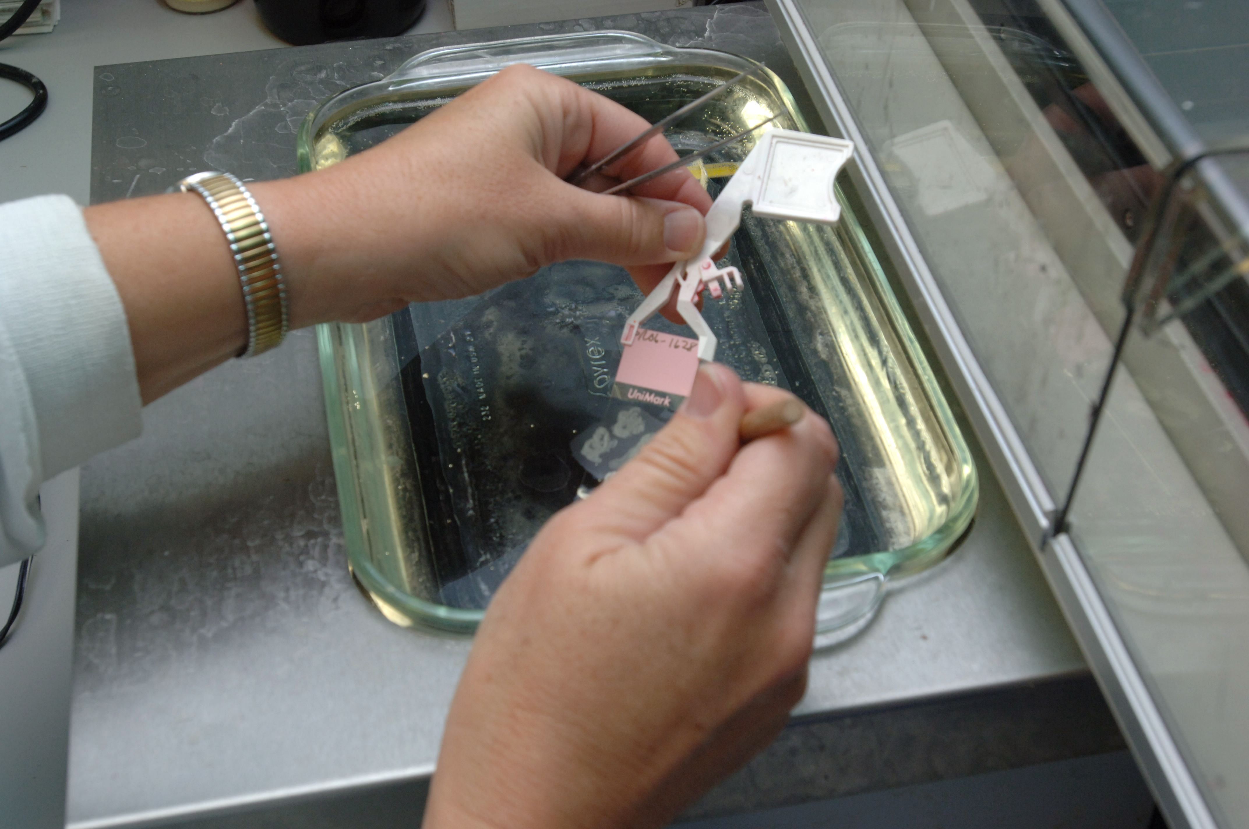 The paraffin ribbon is recovered from water bath by passing a glass slide under it and picking it up.